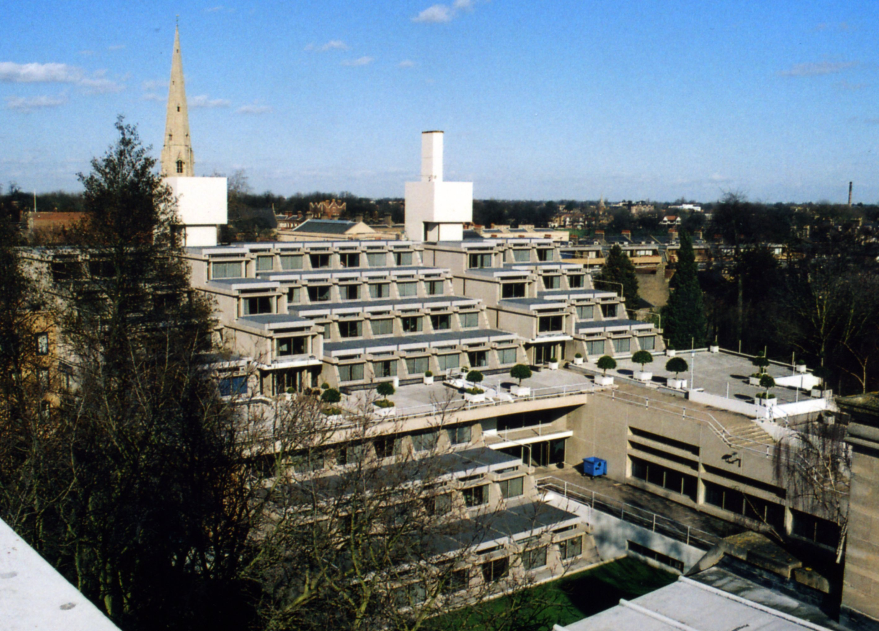 Photograph of Christ's College, Cambridge, England; Lasdun Building; New Court from the cupola above R-Staircase